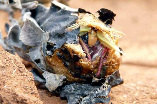 Atlas Moth emerging from cocoon